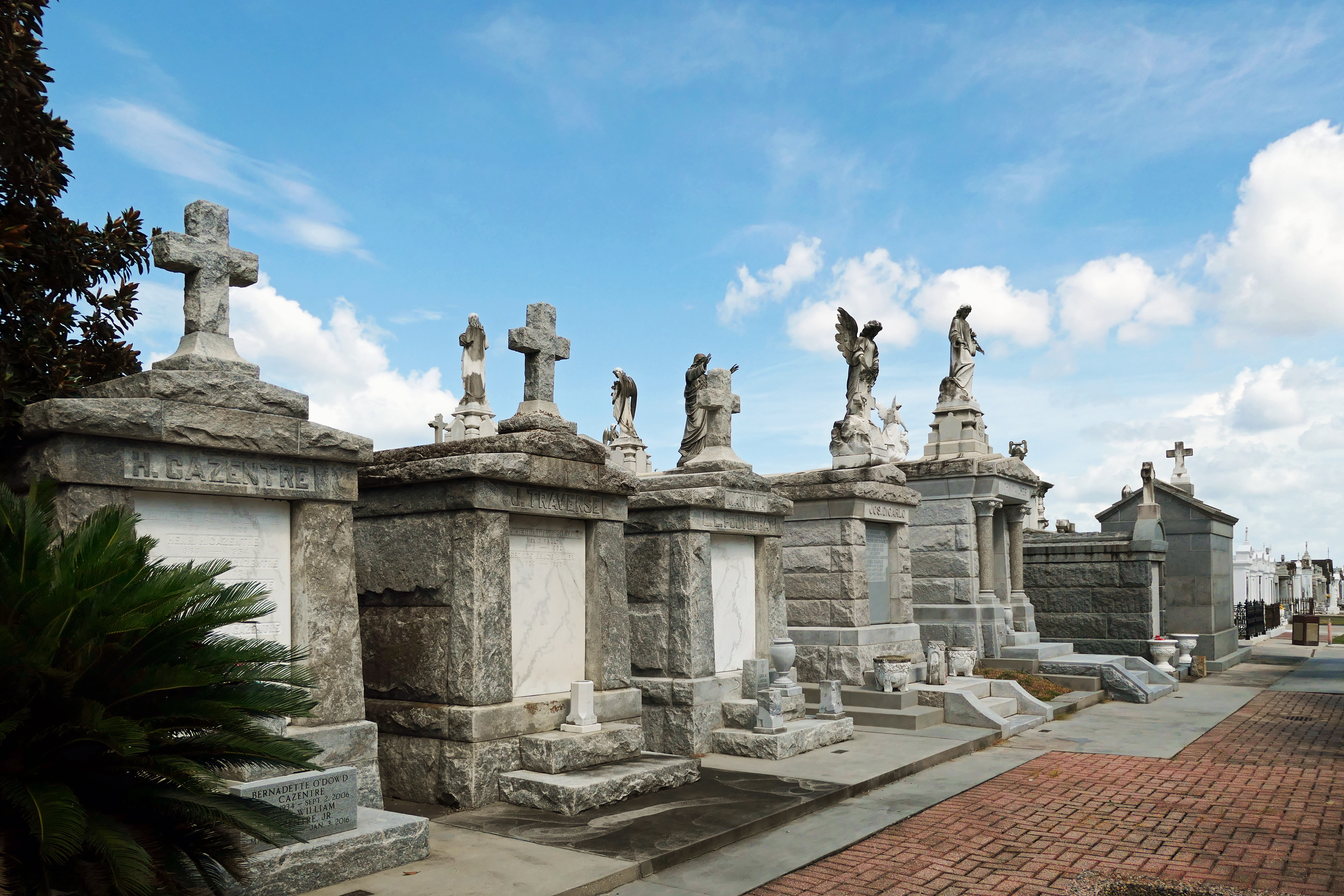 "Less visited than its counterparts, Cemetery No. 3 offers a piece of rest and quietude for those both above and below ground. Established in 1854, each tomb recounts a chapter in New Orleans' rich history"”from immigration patterns to floods and yellow fever outbreaks. Walk the rows to see marble and stone gravesites that are themselves works of art."